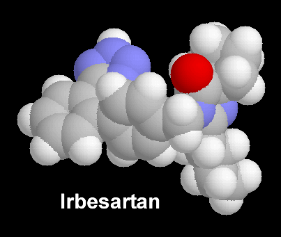 Created by Osni Moreira Filho on March 18, 2006.